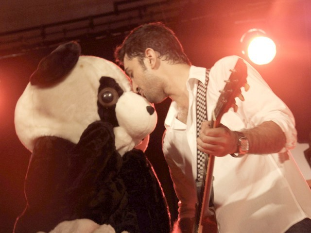 Aunty Disco Project performing their last and final concert at PACC, Karachi, Sindh, on June 25, 2012. Visible from left to right are; a guest appearance by a stuffed Panda mascot from the band's music video of their single "Hum Na Rahay" and lead vocalist Omar Bilal Akhtar.